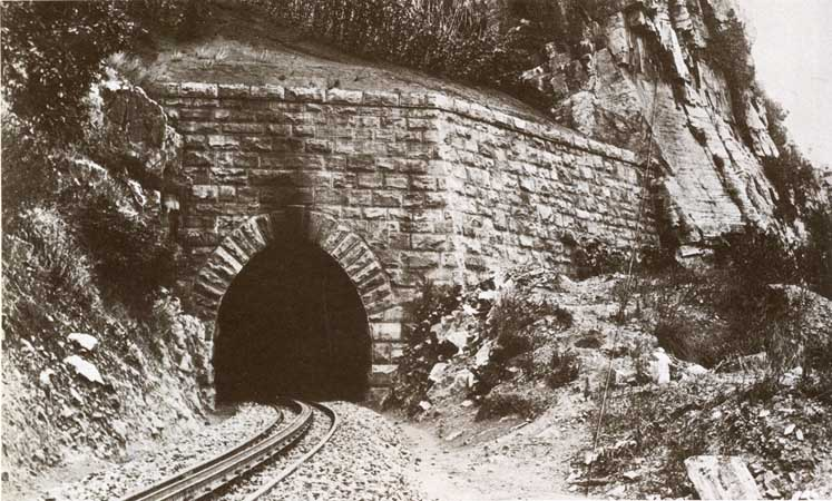 Eastern portal of the NZASM 213 metre tunnel between Waterval Onder and Waterval Boven (opened 1894). Notice the rack between the railway lines which enabled rack-and-pinion working (lifted 1908).